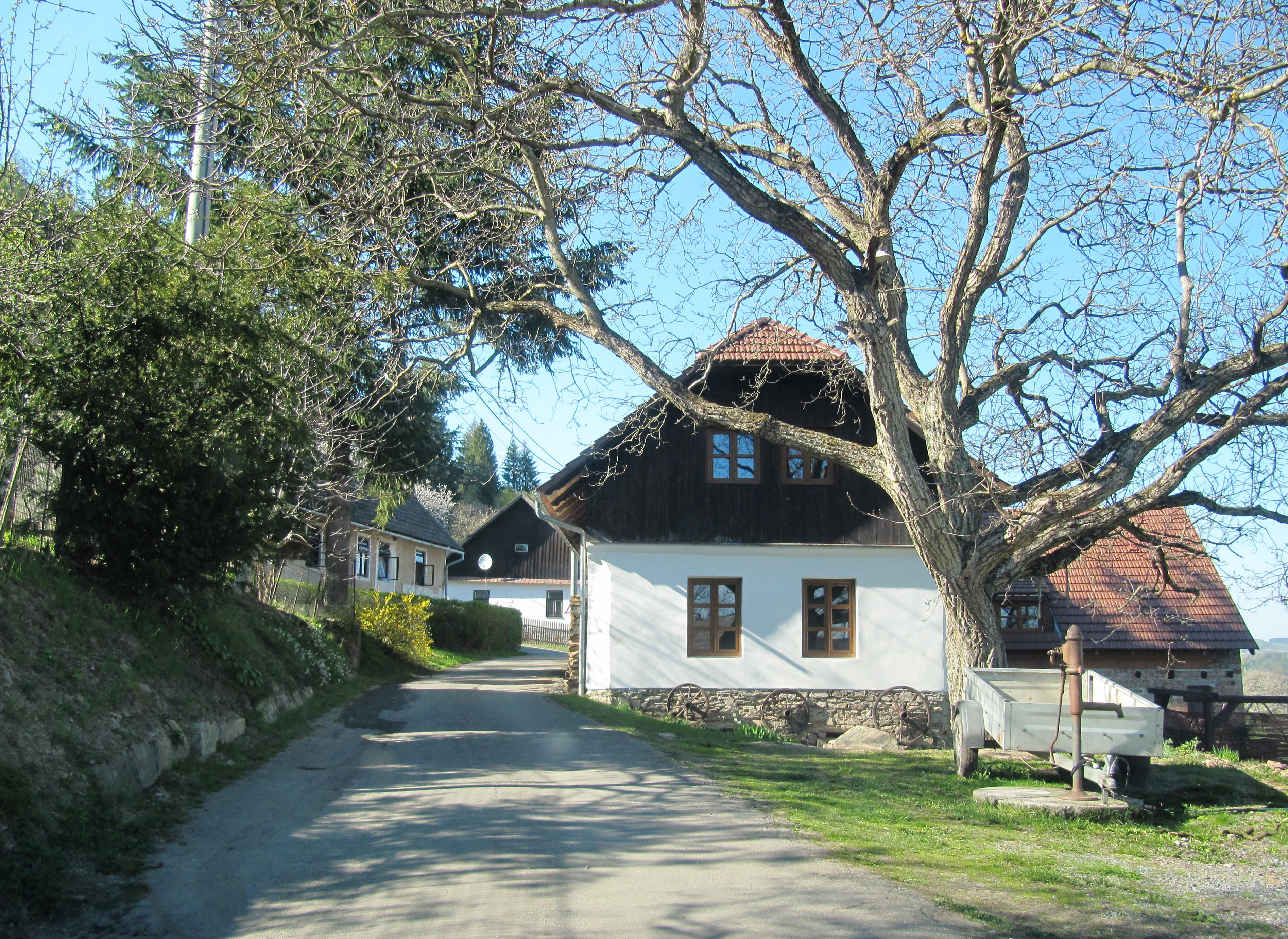 Koroužné, Žďár nad Sázavou District, Czechia, part Kobylnice.